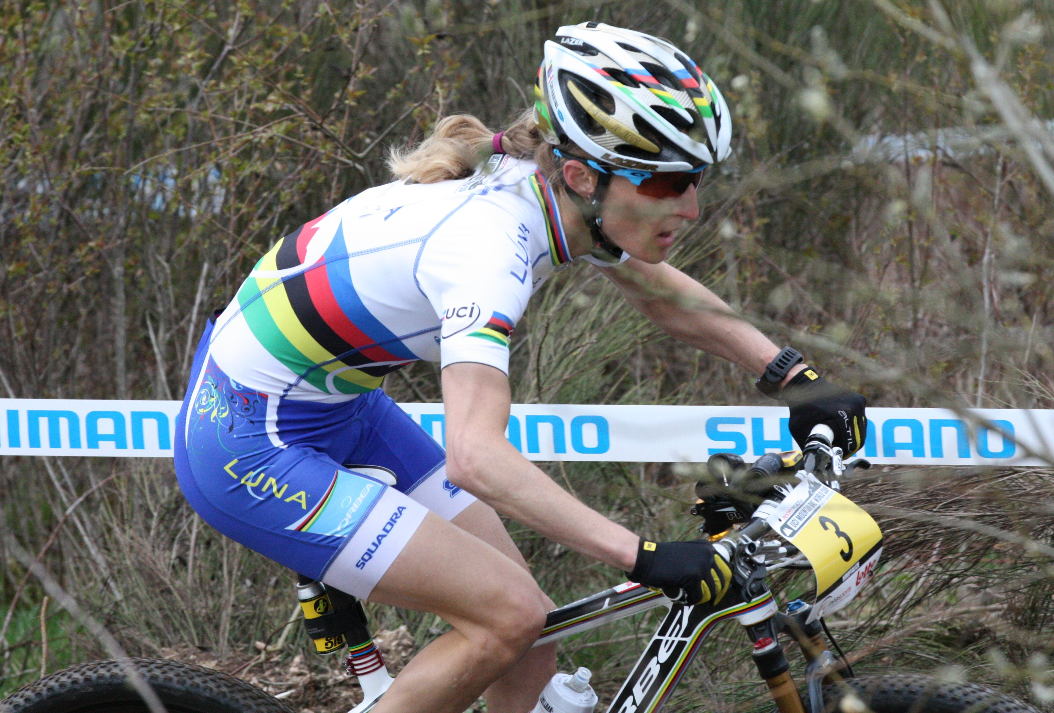 Catharine Pendrel at the World Cup in Houffalize on 15th April 2012